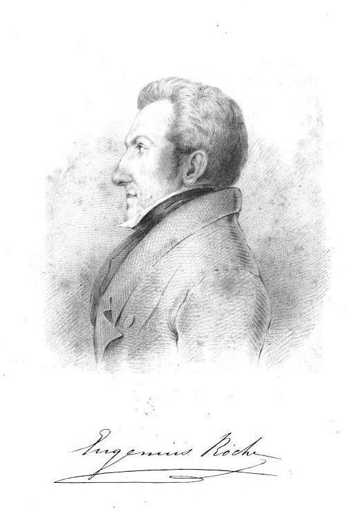 Portrait of Eugenius Roche (1786–1829), Anglo-French journalist.